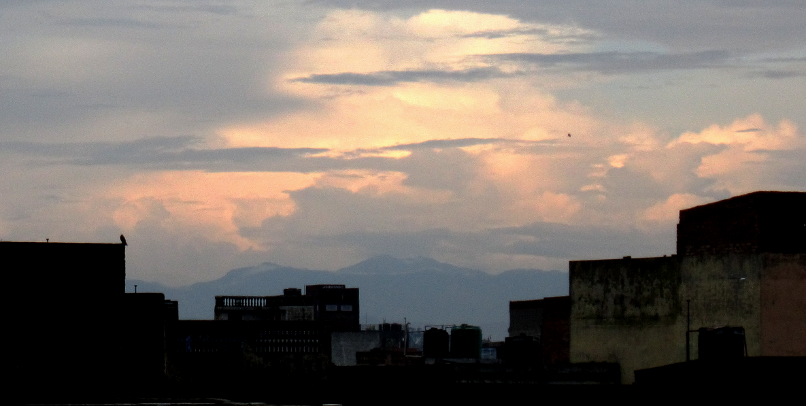 I shot this photo from my camera on a clear evening, showing the Northern Horizon of Saharanpur